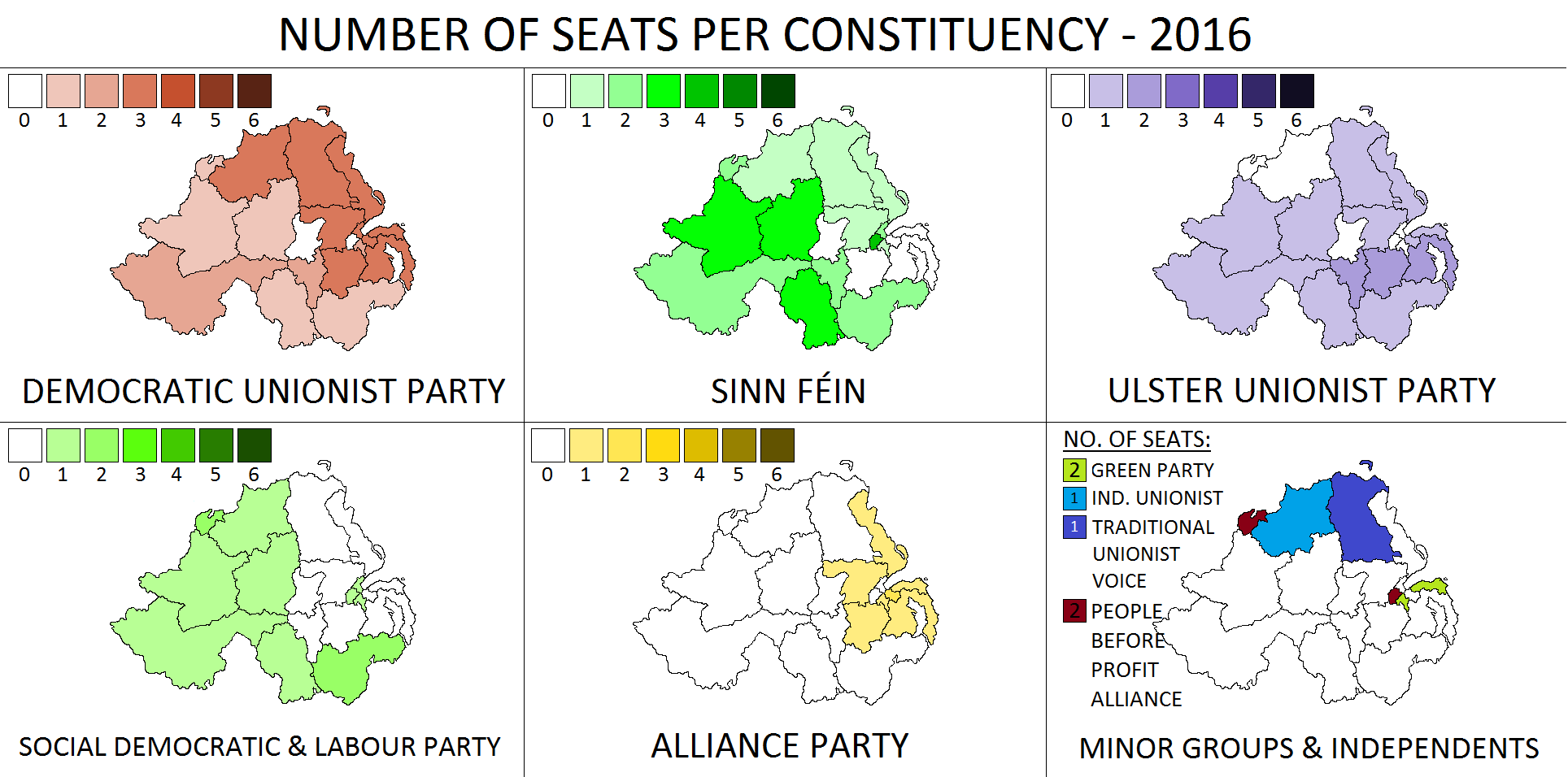 Map showing the results of the 2016 Northern Ireland Assembly election.